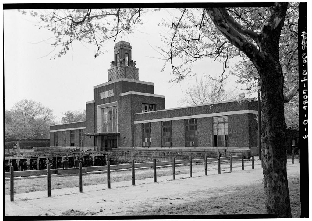 Ellis Island Ferry Building built in 1932 to rreplace early structure was renovated in 2000s, but remains restricted to public